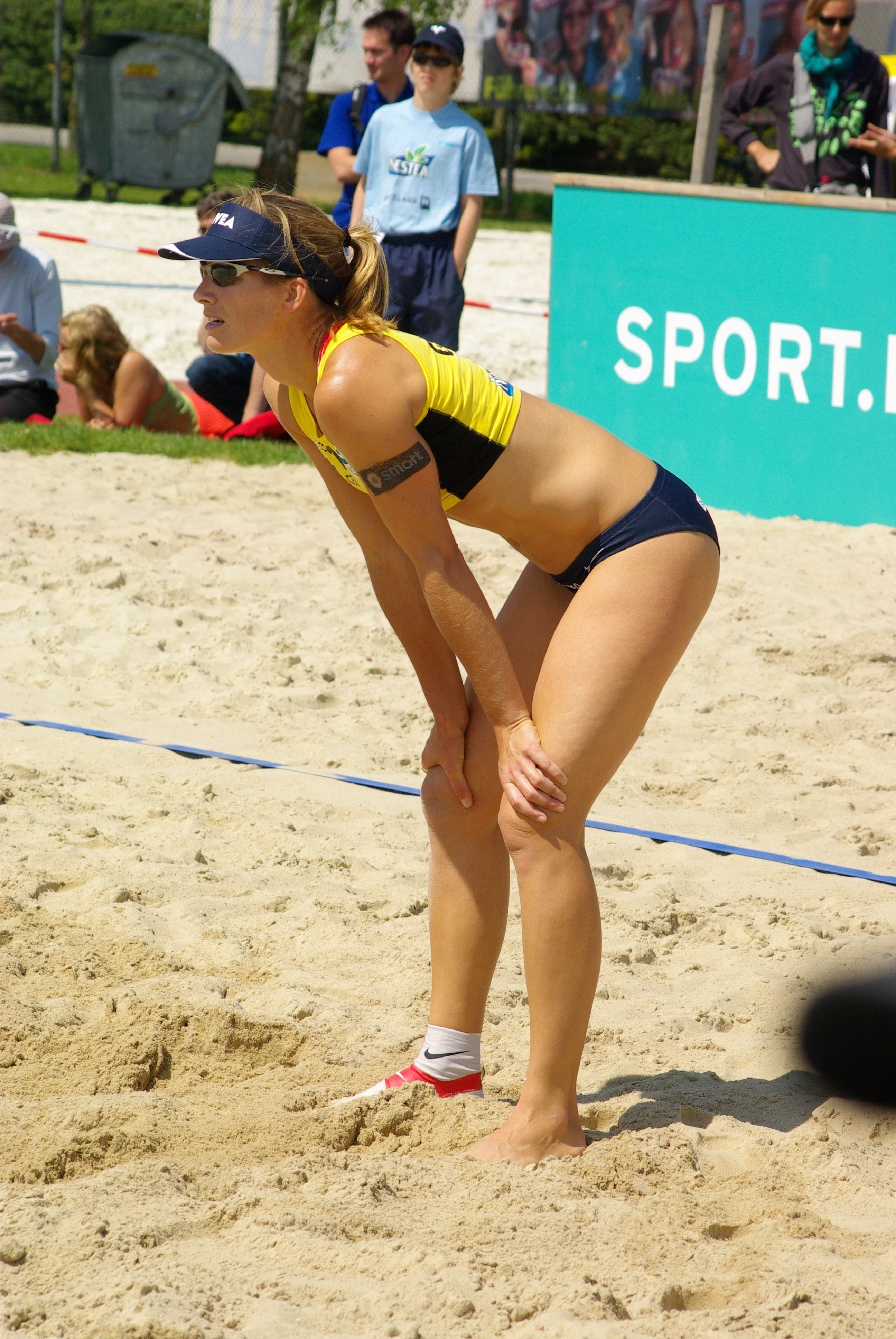 German Beach volleyball player Okka Rau at the European Championship Tour 2008 Austrian Masters in St. Pölten.